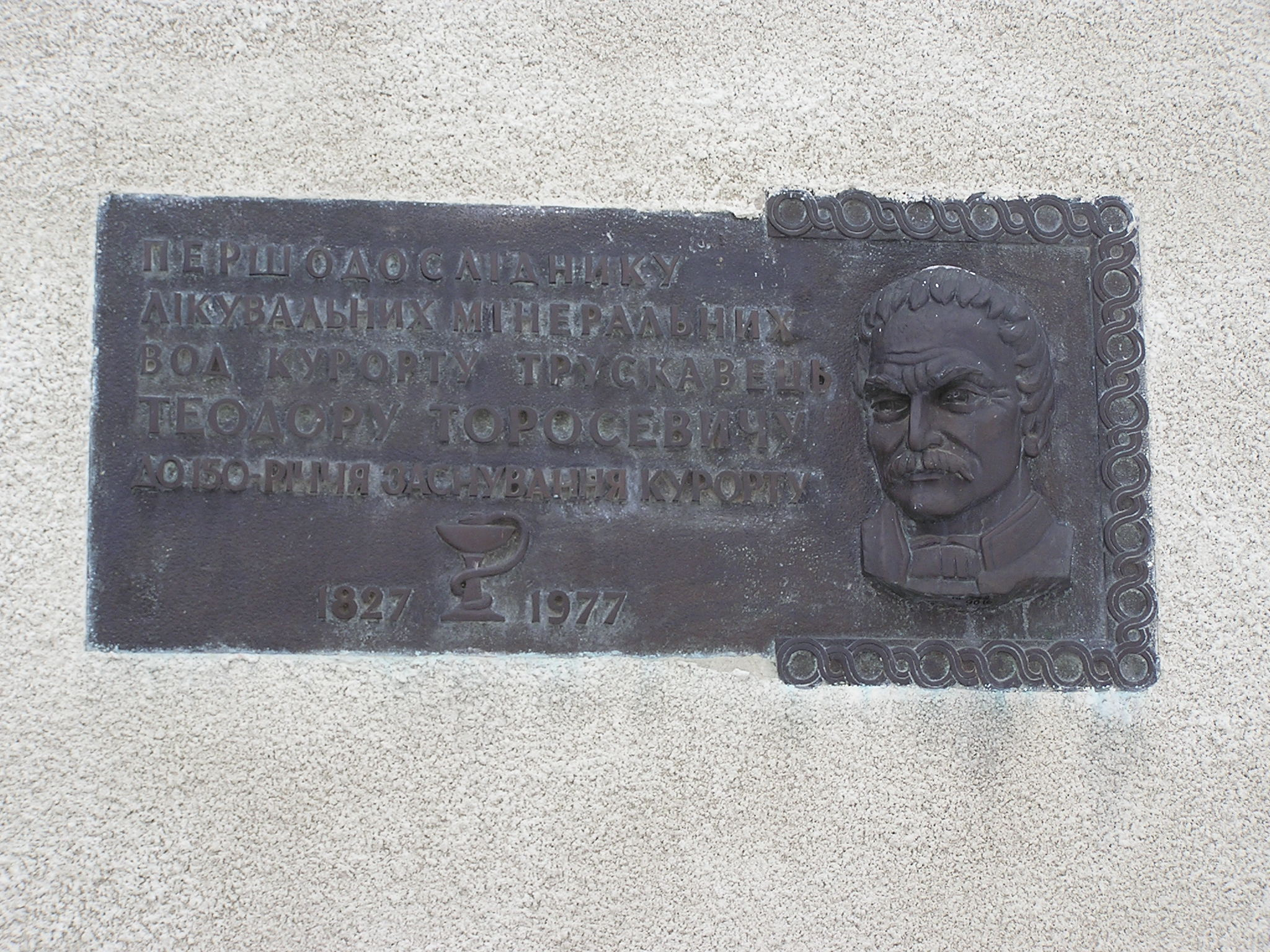 Truskavets